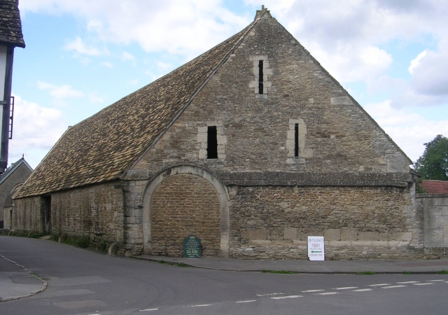 Barn - East Street, Lacock